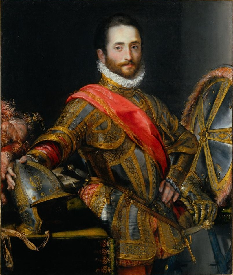 Francesco Maria II della Rovere, Duke of Urbino (1574-1631); Pesaro 20 February 1549 - Casteldurante 18 April 1631